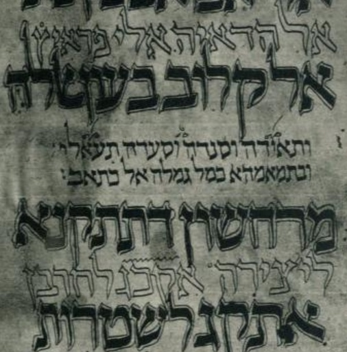 Title page to Bodleian Ms. Heb 1225. The manuscript is an old copy of Bahya ibn Paquda Chovot HaLevavot. From Abraham Yahuda's 1912 scientific edition.